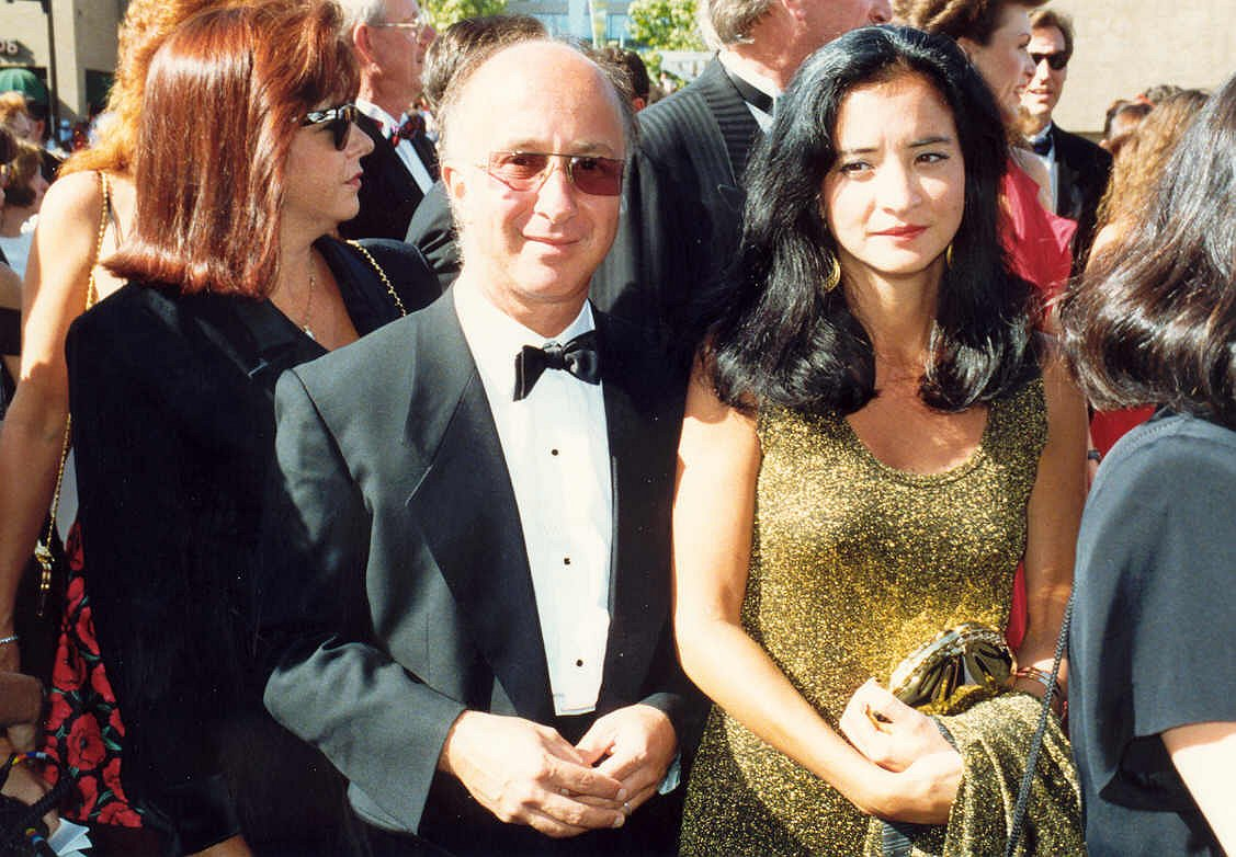 Paul Shaffer and wife on the red carpet at the 1992 Emmy Awards